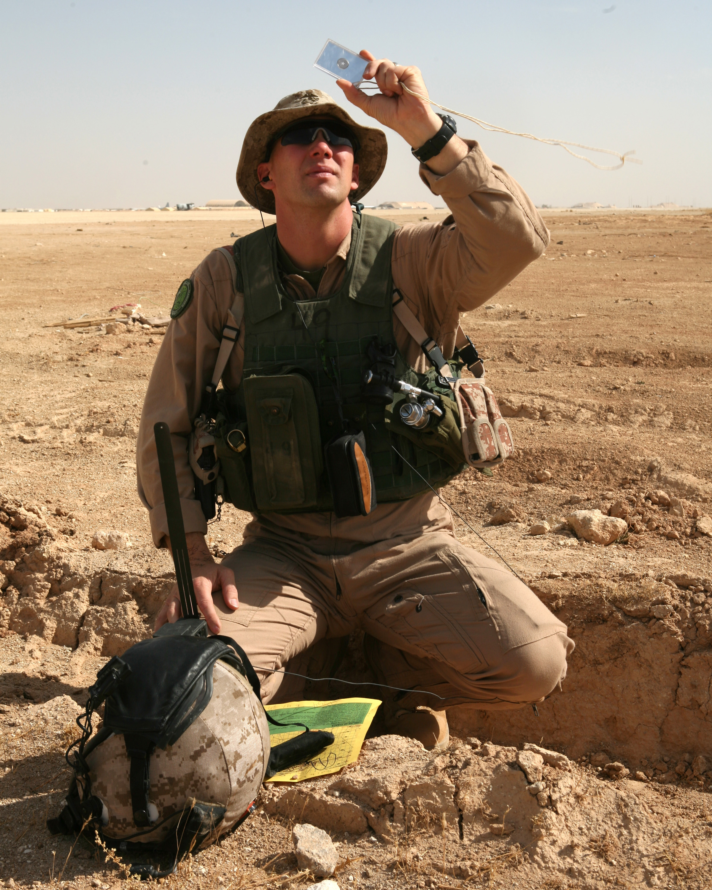 From the website: " U.S. Marine Corps Lt. Heath Clifford, with Marine Aircraft Group 29, uses a mirror to signal a MV-22B Osprey aircraft during a tactical recovery of aircraft and personnel exercise at Al Asad Air Base, Iraq,Oct. 23, 2007. (U.S. Marine Corps photo by Cpl. Michael Haas) (Released) Location: Al Asad Air Base VIRIN: 071023-M-2166H-002" This mirror is a 2"x3" acrylic military issue mirror, National Stock NSN 6350-00-105-1252, description MIRROR,EMERGENCY SIGNALING 2"x3" Acrylic The aimer is made of retroreflective cloth with a (patented, trademarked) star-shaped sighting aperture. Retroreflective aimers are like a reflex gunsight – they produce a bright round fuzzy “fireball”, visible only when looking through the aimer, in the direction of the reflected light. The principle of using a retroreflective sheet coplanar with the mirror was invented by Richard S. Hunter, who filed for a patent on April 20, 1945, which was issued as US Patent 2,412,616 on Dec. 17, 1946. That patent is viewable online at , and provides diagrams and explanations of the aiming principle. This type of signal mirror also floats, and the general construction has much in common with the signal mirror described in U.S. Patent 3,164,124 to Frederick Ehrsam, issued Jan. 5, 1965, and viewable online here: .